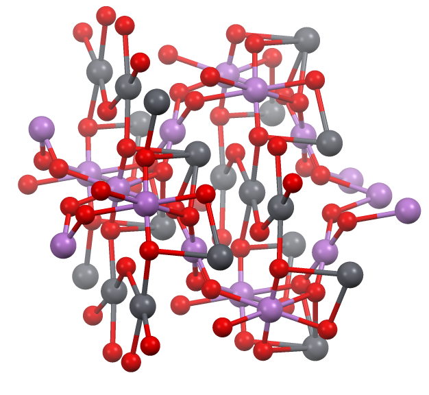 Portion of the dilead antimonate (Pb2Sb2O7) structure Crystal structure of lead antimonate Pb2 Sb2 O7 Ivanov, S.A.; Zavodnik, V. E. Kristallografiya (1990) 35, (*) p842-p846